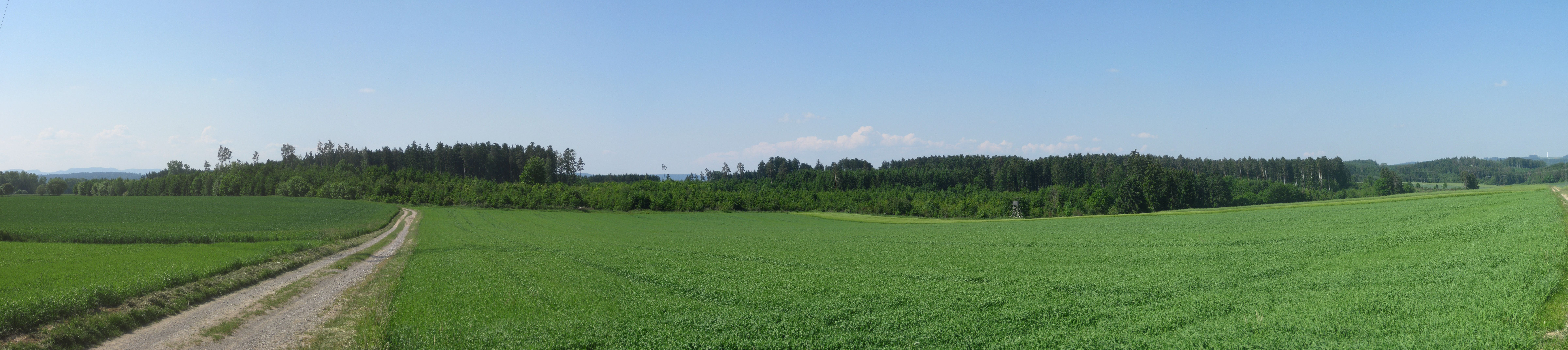 The Seewald (Lake Forest), location of the Bodenloser See (Bottom-less Lake) between the villages of Dettensee and Empfingen. Photograph taken from a northwestern direction.